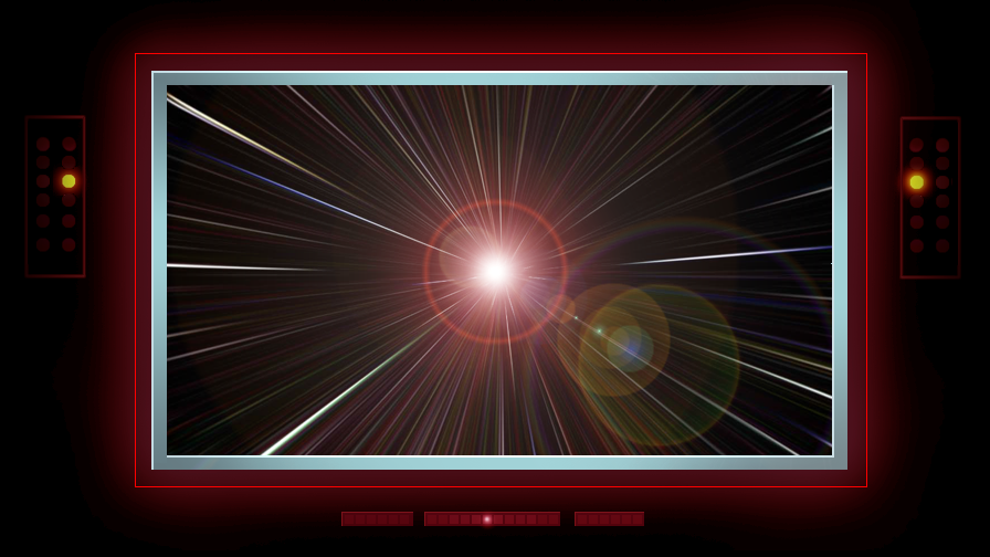 Star Fleet-style monitor showing acceleration through subspace. Viewscreen dimensions roughly proportional to the monitors shown in Star Trek TOS, though the warp effect in this image more closely approximates the motion trails employed in TNG This image contains a modified version of this file by Björn S.